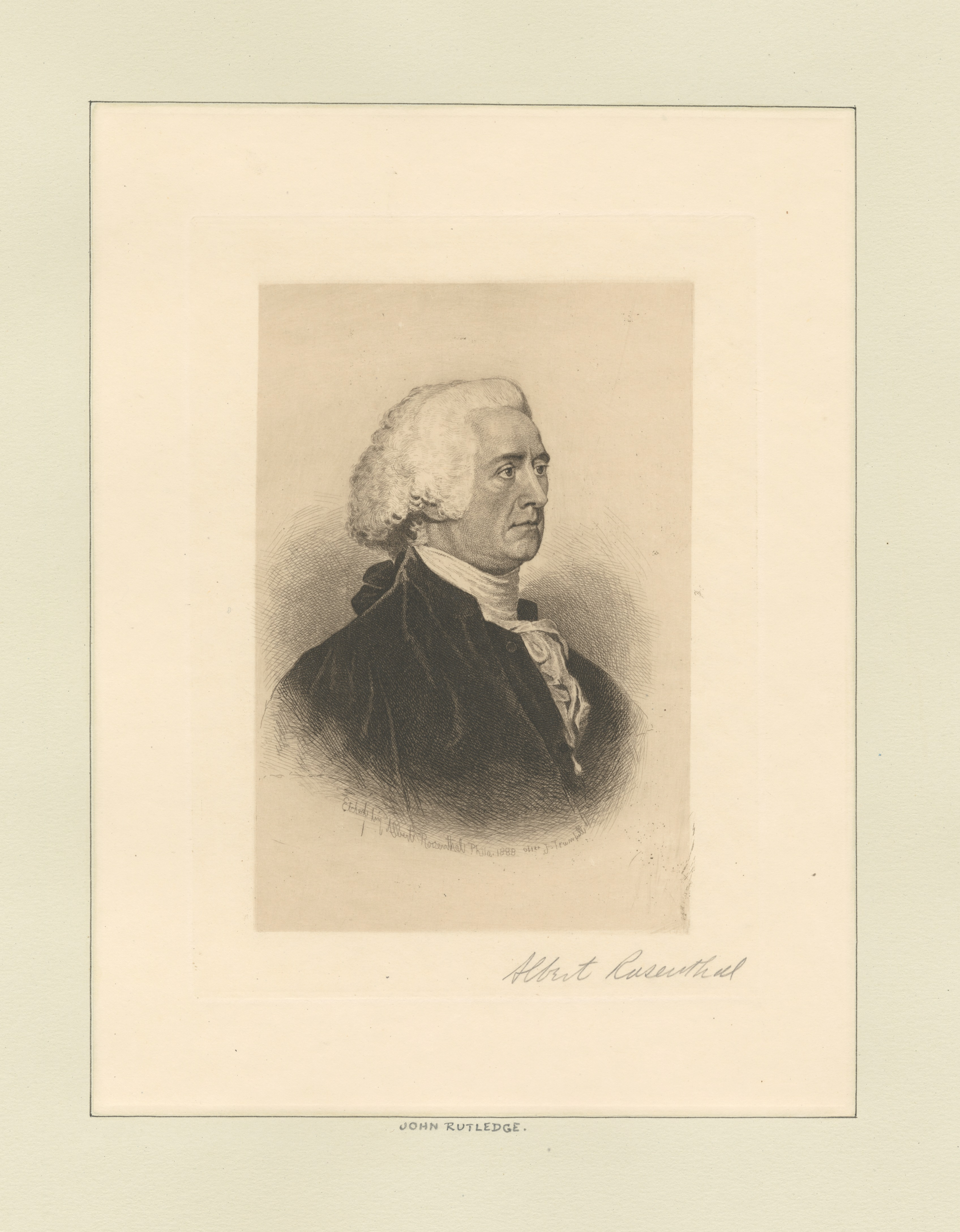 Printmakers include Albert Rosenthal & Samuel Sartain. Draughtsman is David McNeely Stauffer. Title from Calendar of Emmet Collection. EM9510 Statement of responsibility : Albert Rosenthal